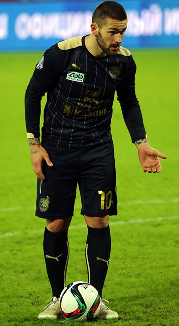 Marko Livaja